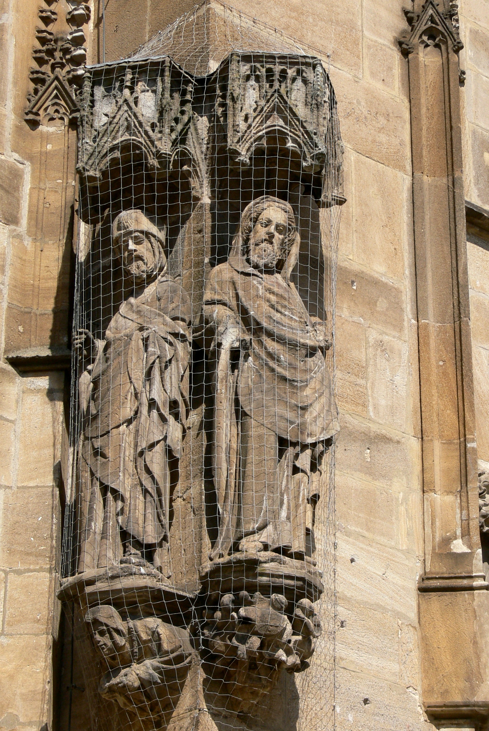 St.Andreas parish church in Weißenburg ( Bavaria ). Bride portal ( 1425 ): Statues of Saint James the Greater and an unidentified apostle.